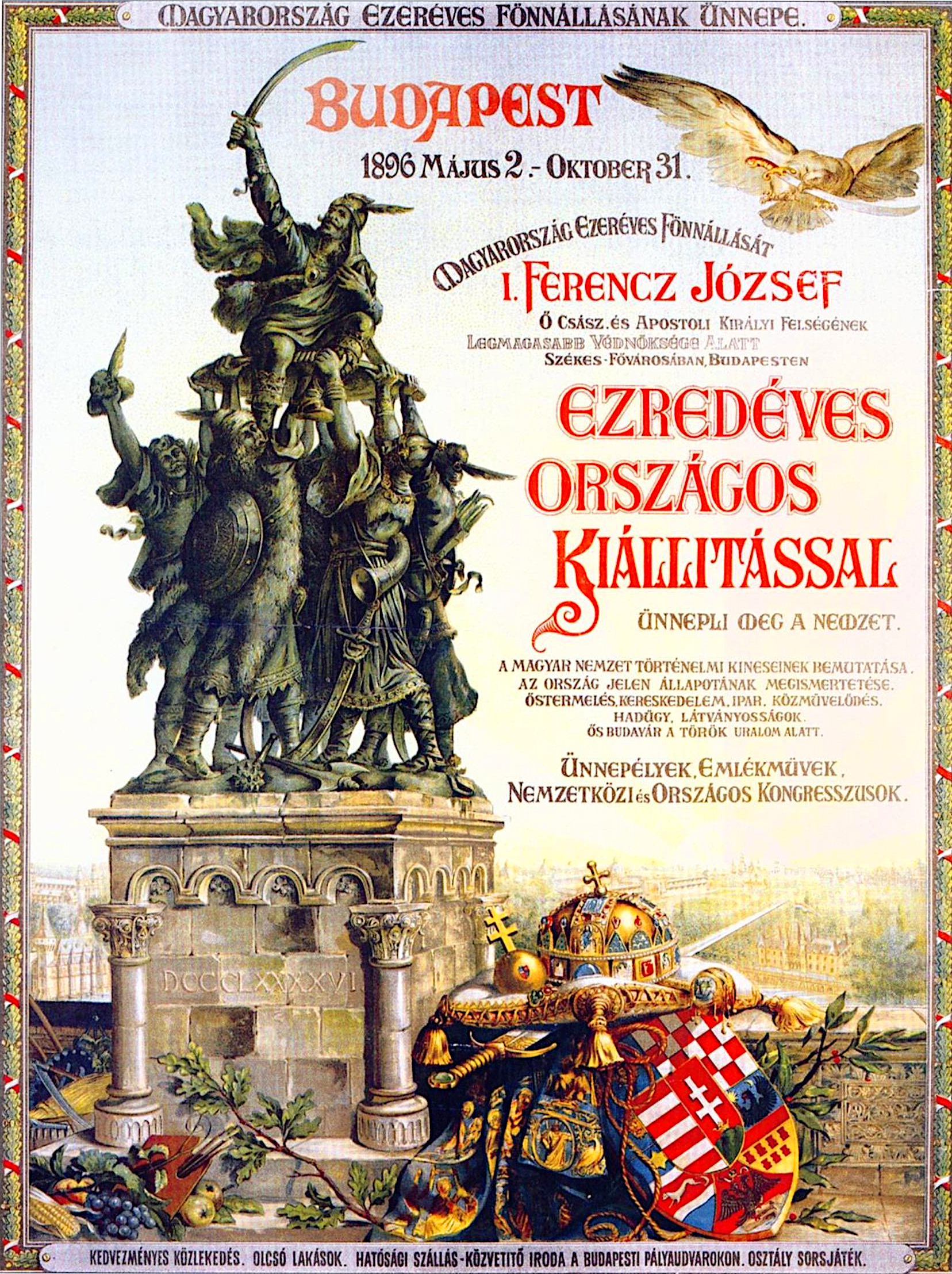 Millennium in Kingdom of Hungary